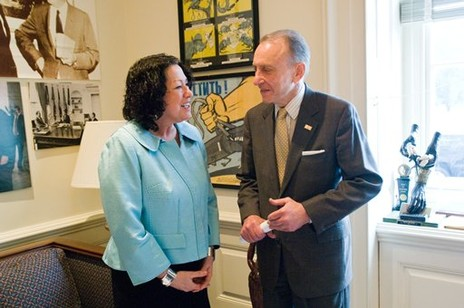 Senator Arlen Specter (D-PA) meeting with Supreme Court nominee Sonia Sotomayor.